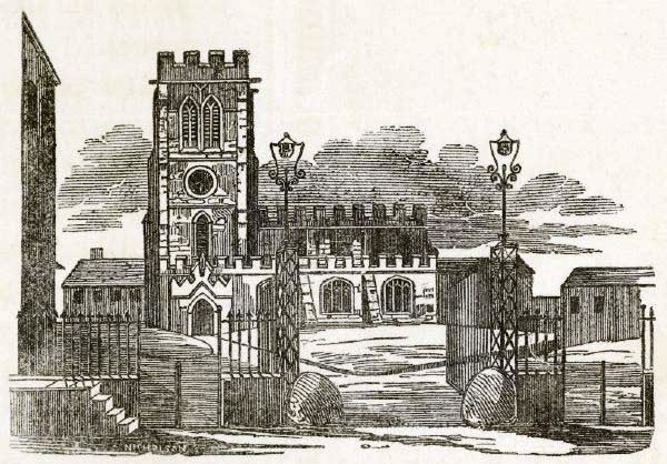 Saint Alkmund's Church was a Victorian Church, which stood in a Georgian square between Bridgegate and Queen Street in Derby; this was the only Georgian square in the city.